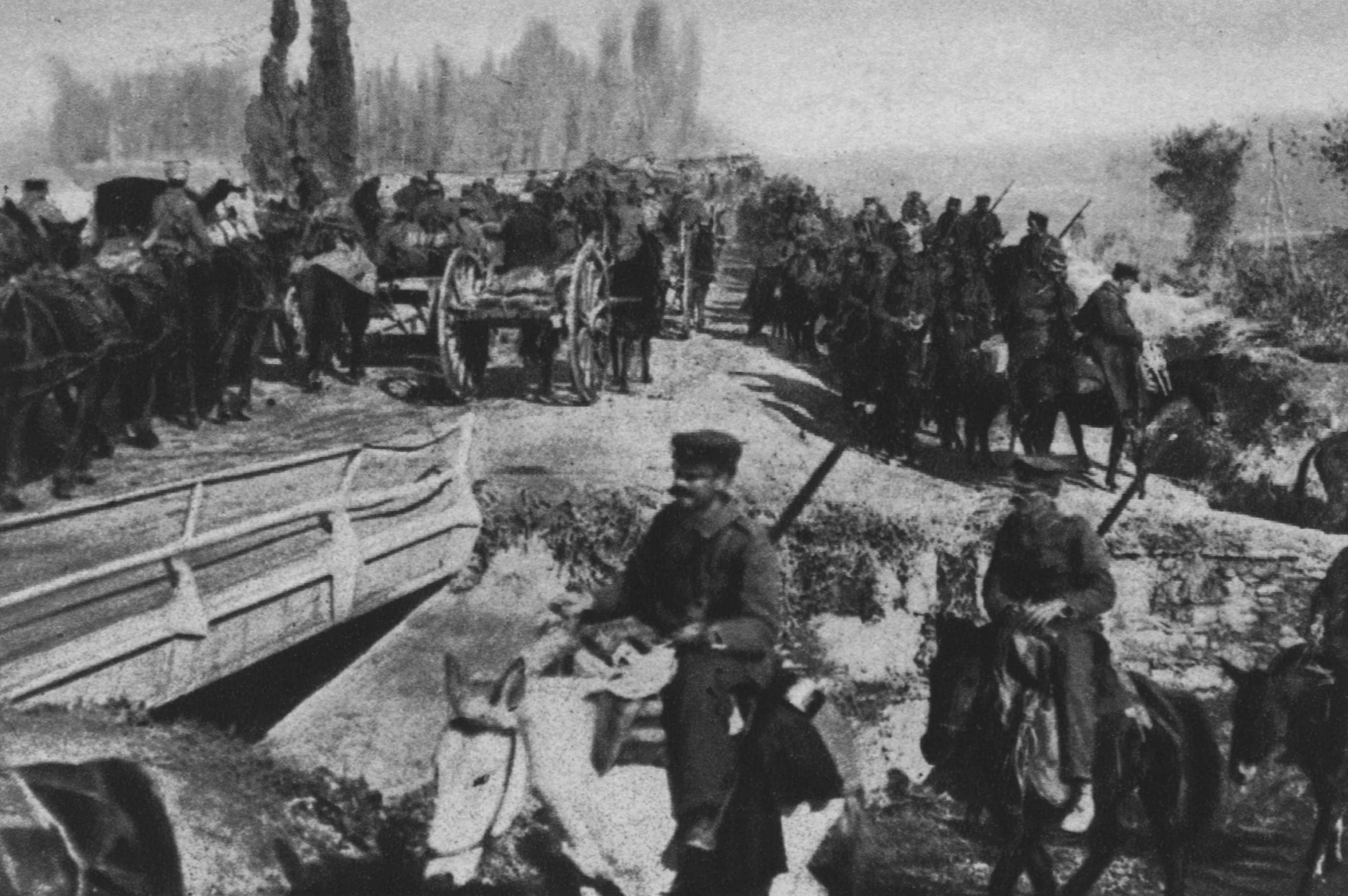 French and Greek troops on the march near Thessaloniki (November 6th, 1915).